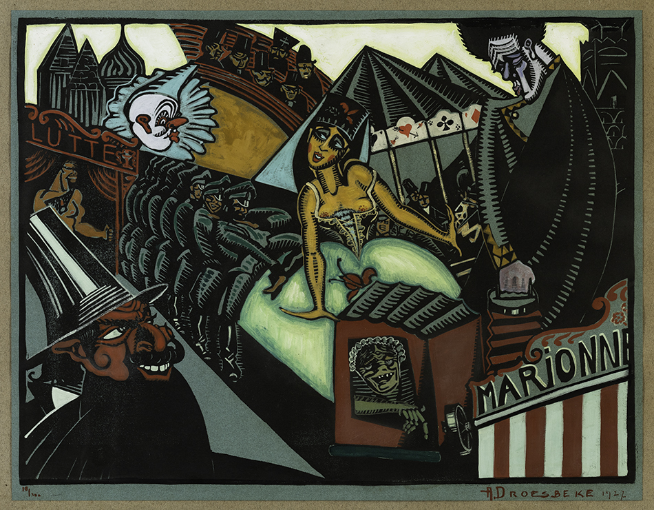 Petrouchka, coloured woodcut by Albert Droesbeke, 1927.